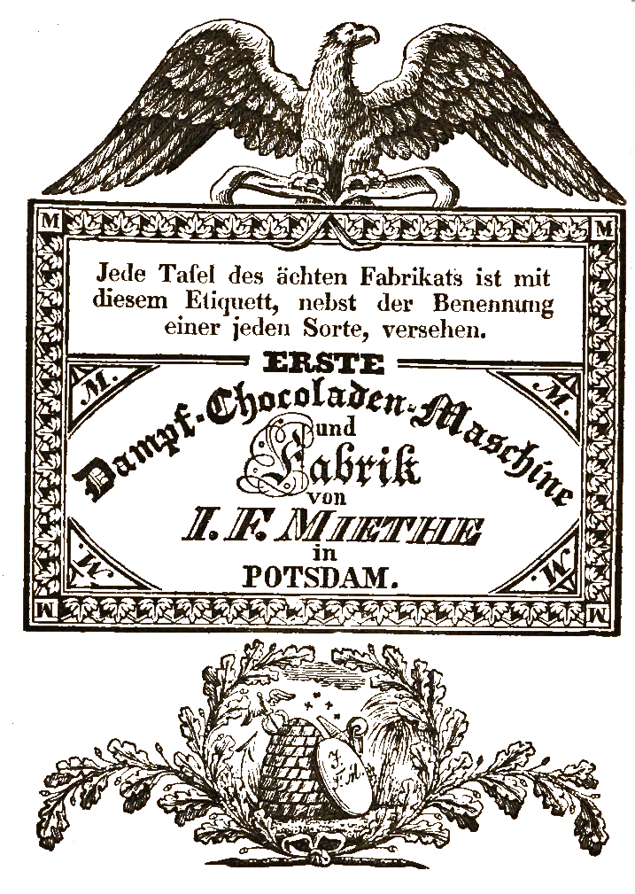 sample label for chocolate bars produced by Johann Friedrich Miethe using the new steam engine method